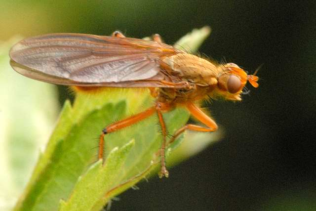 Scathophaga scybalaria from Commanster, Belgian High Ardennes .